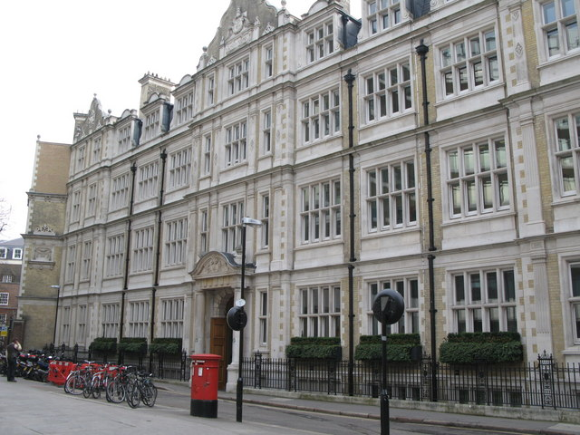 The former Patent Office building, Southampton Buildings, WC2. Shows the location of 1271735.